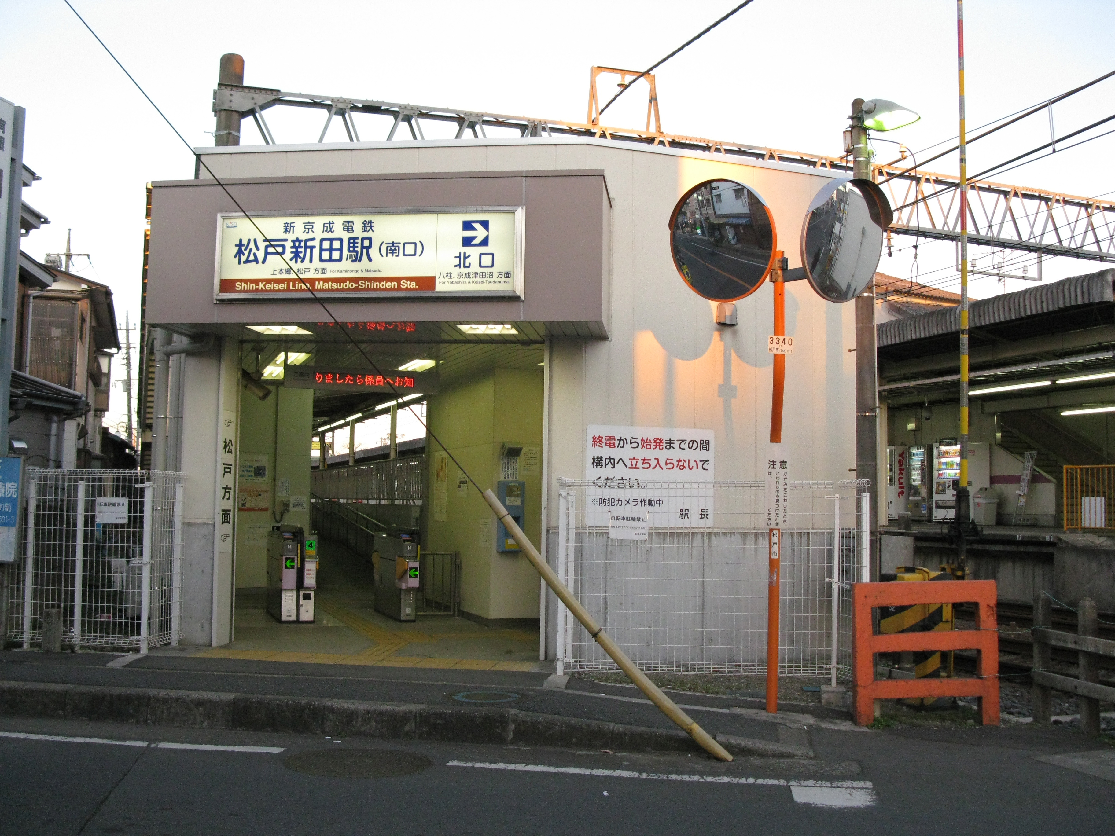 Matsudo-Shinden Station south entrance (Shin-Keisei Electric Railway Shin-Keisei Line)